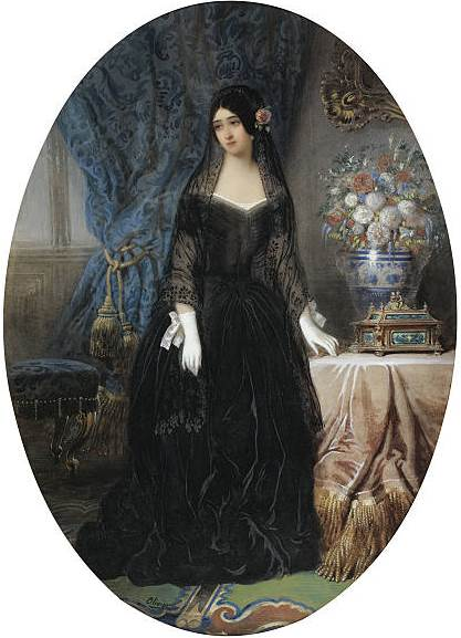 Marie Duplesis, "la dame aux camélias", in a portrait of 1840